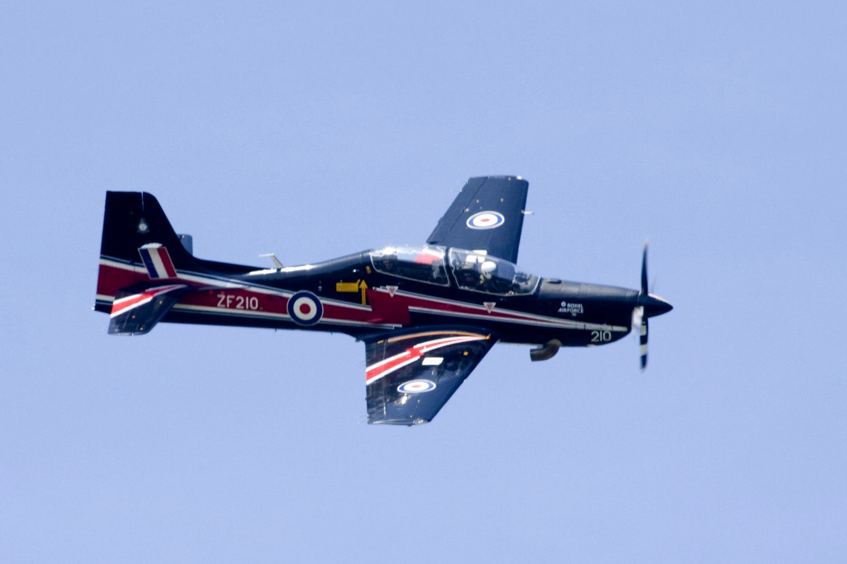 A Royal Air Force Short Tucano in flight.